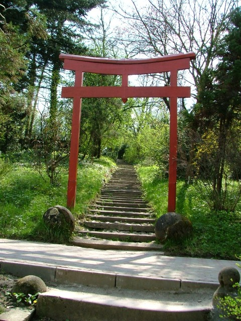 Botanical Garden in Cluj-Napoca. The Japanese Garden door.